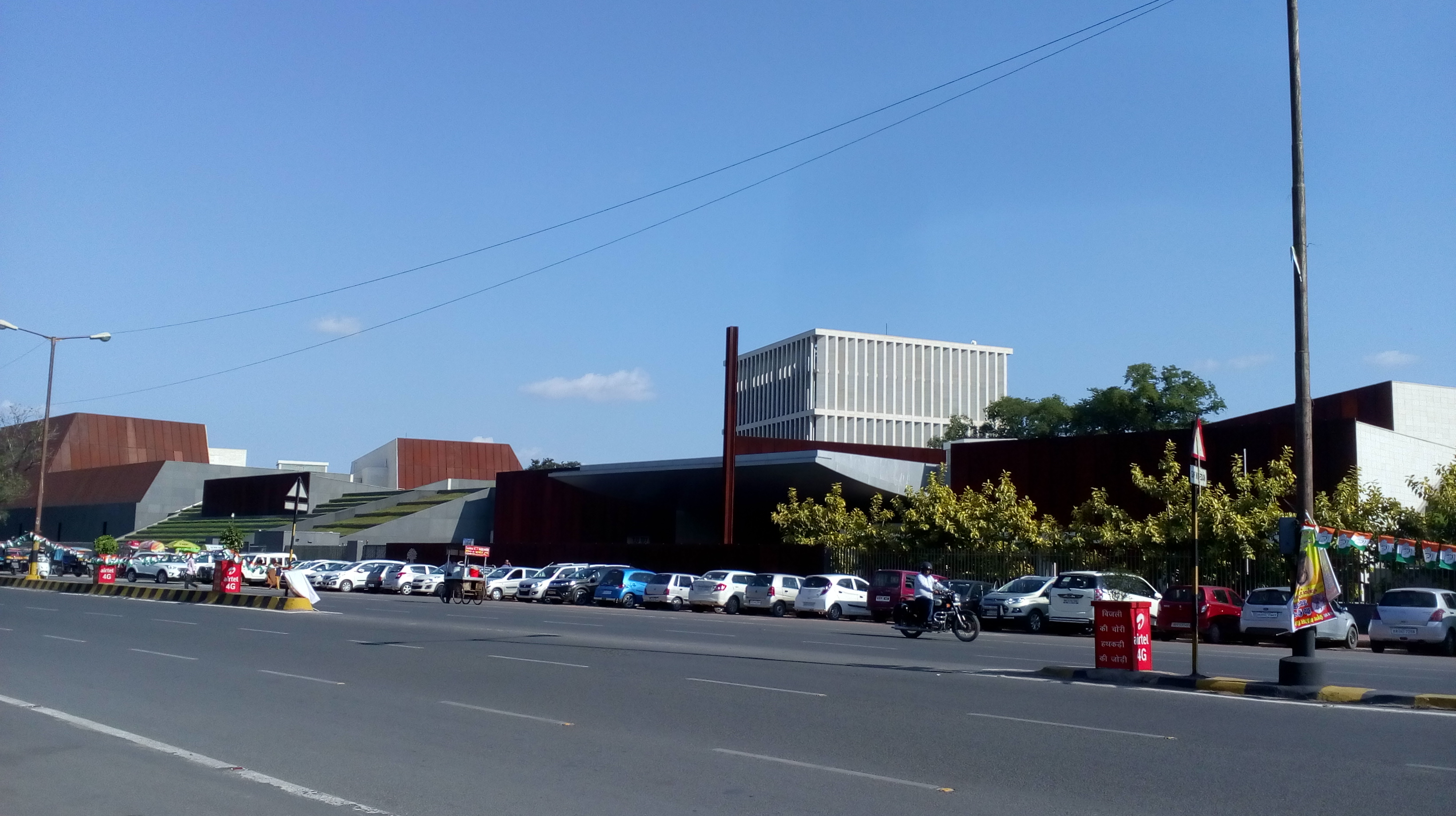 External view of the Bihar Museum (Hindi: बिहार संग्रहालय), a modern state of the art museum located in Patna, India.